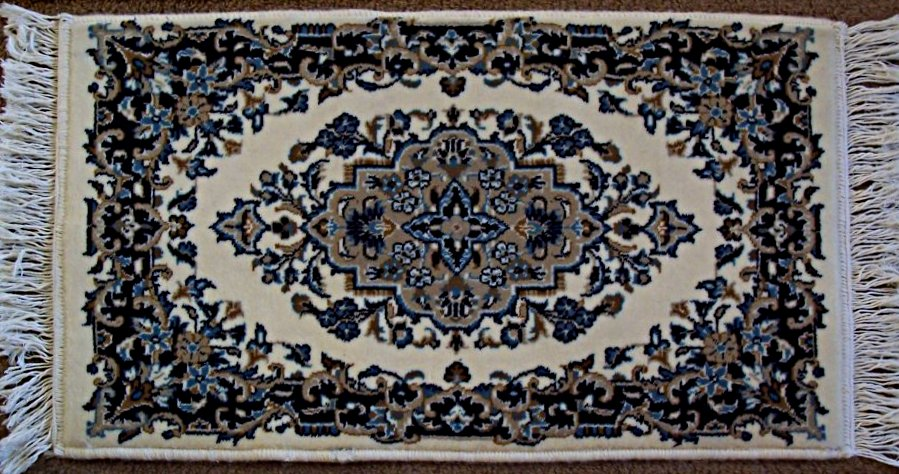 A Nain rug